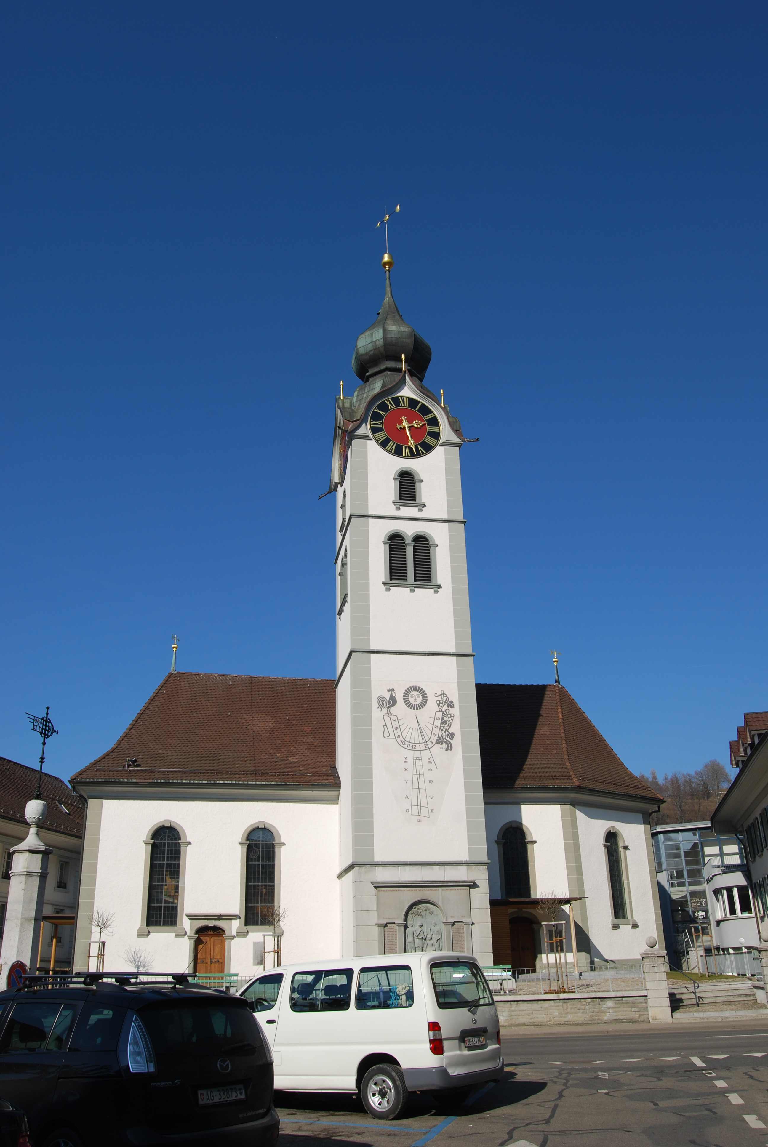 Protestant Church of Huttwil, canton of Bern, Switzerland